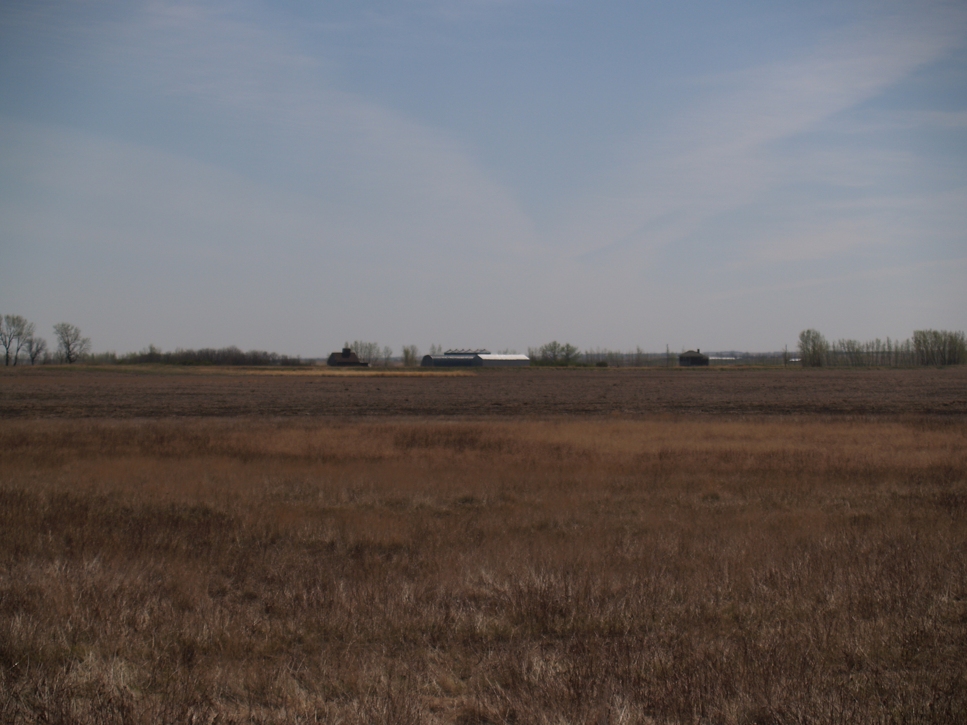 Bounty, North Dakota.